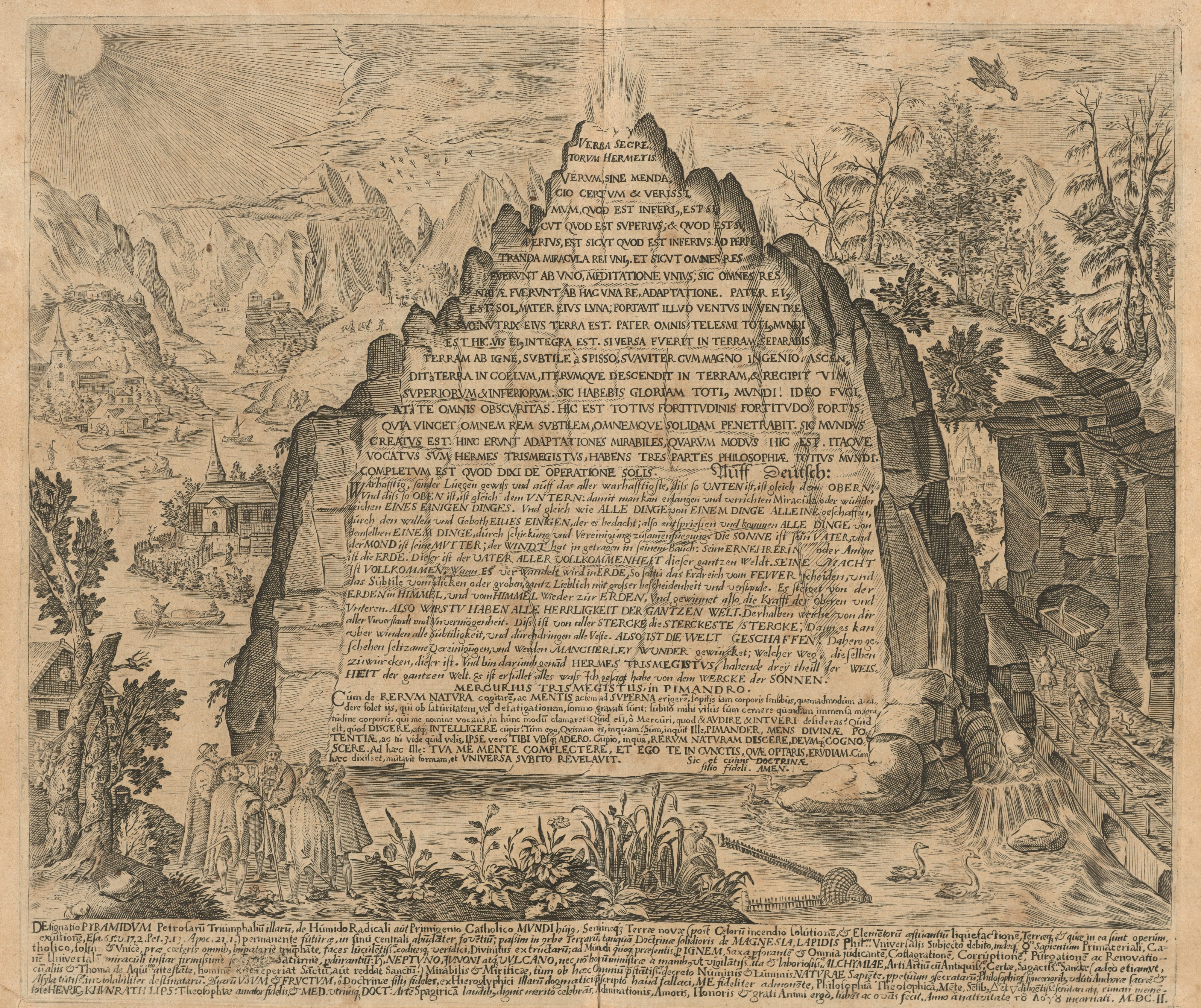 Engraved image of the "emerald tablet" from Amphitheatrvm sapientiae aeternae, solivs verae, 1609, by Heinrich Khunrath (1560-1605). Typ 620.09.482, Houghton Library, Harvard University